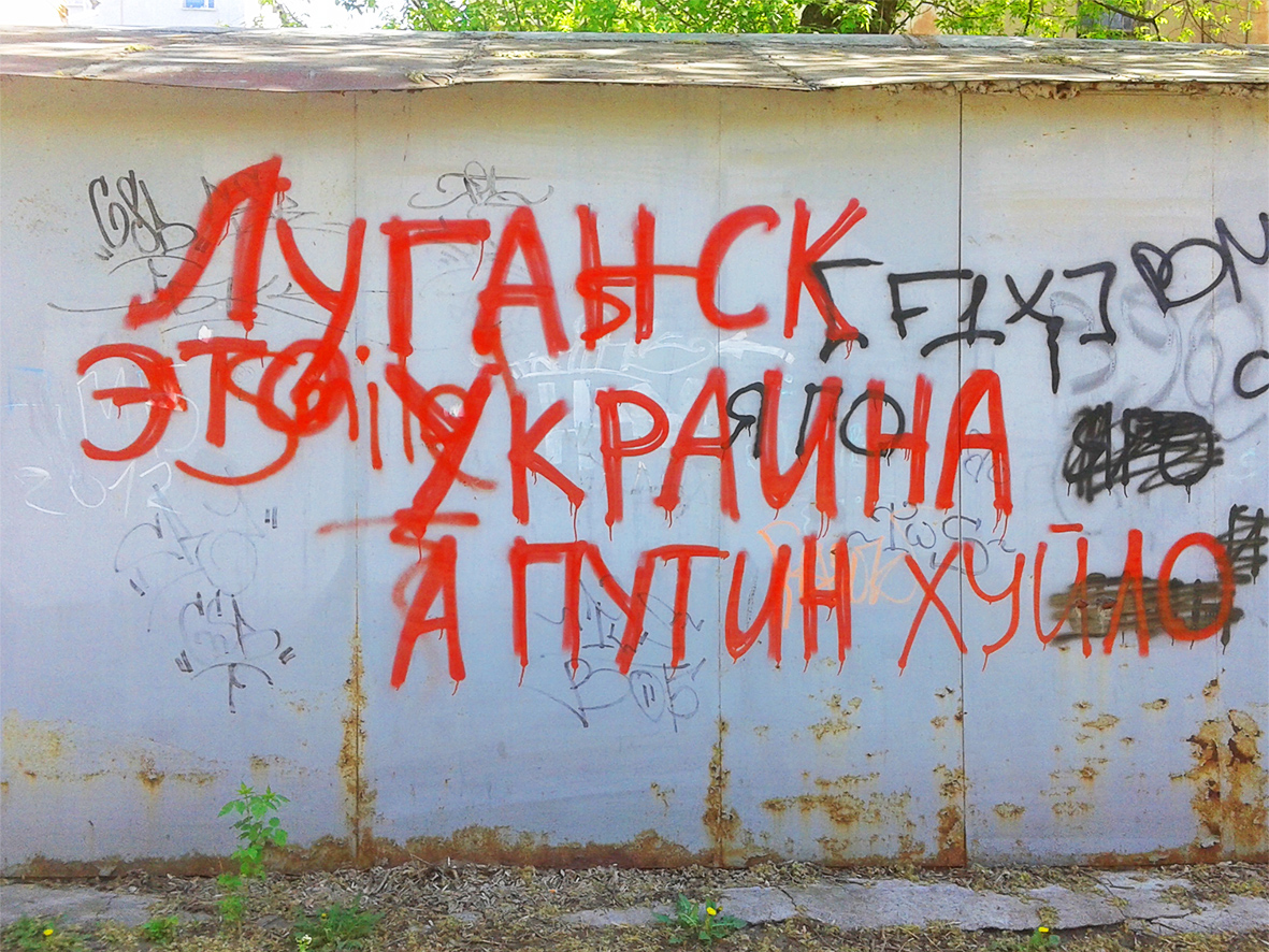 "Putin is dickhead" (Inscription in Luhansk, Ukraine)